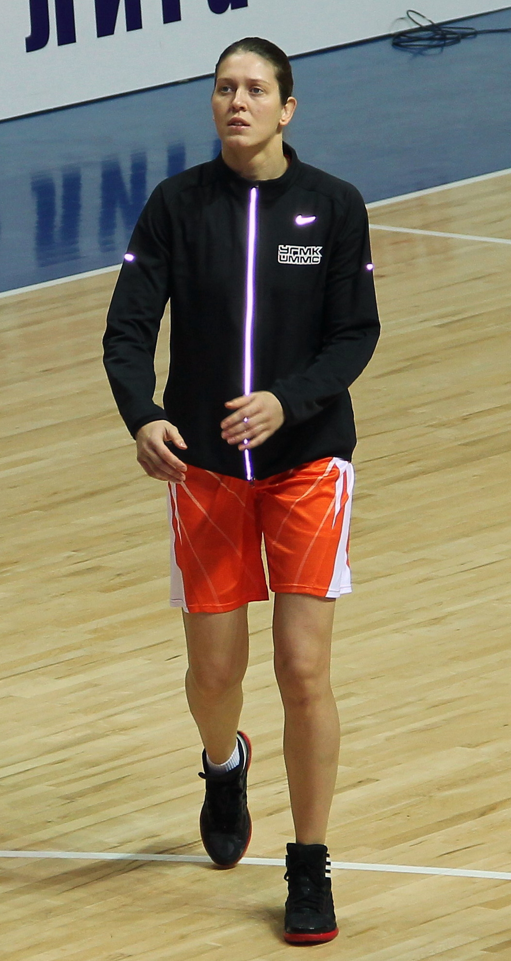 Russia, Vologda, Olga Arteshina in game «Vologda-Chevakata» vs «UMMC» (Yekaterinburg)